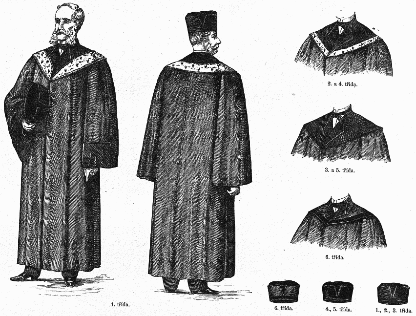 Gown of austrian judge in 1897